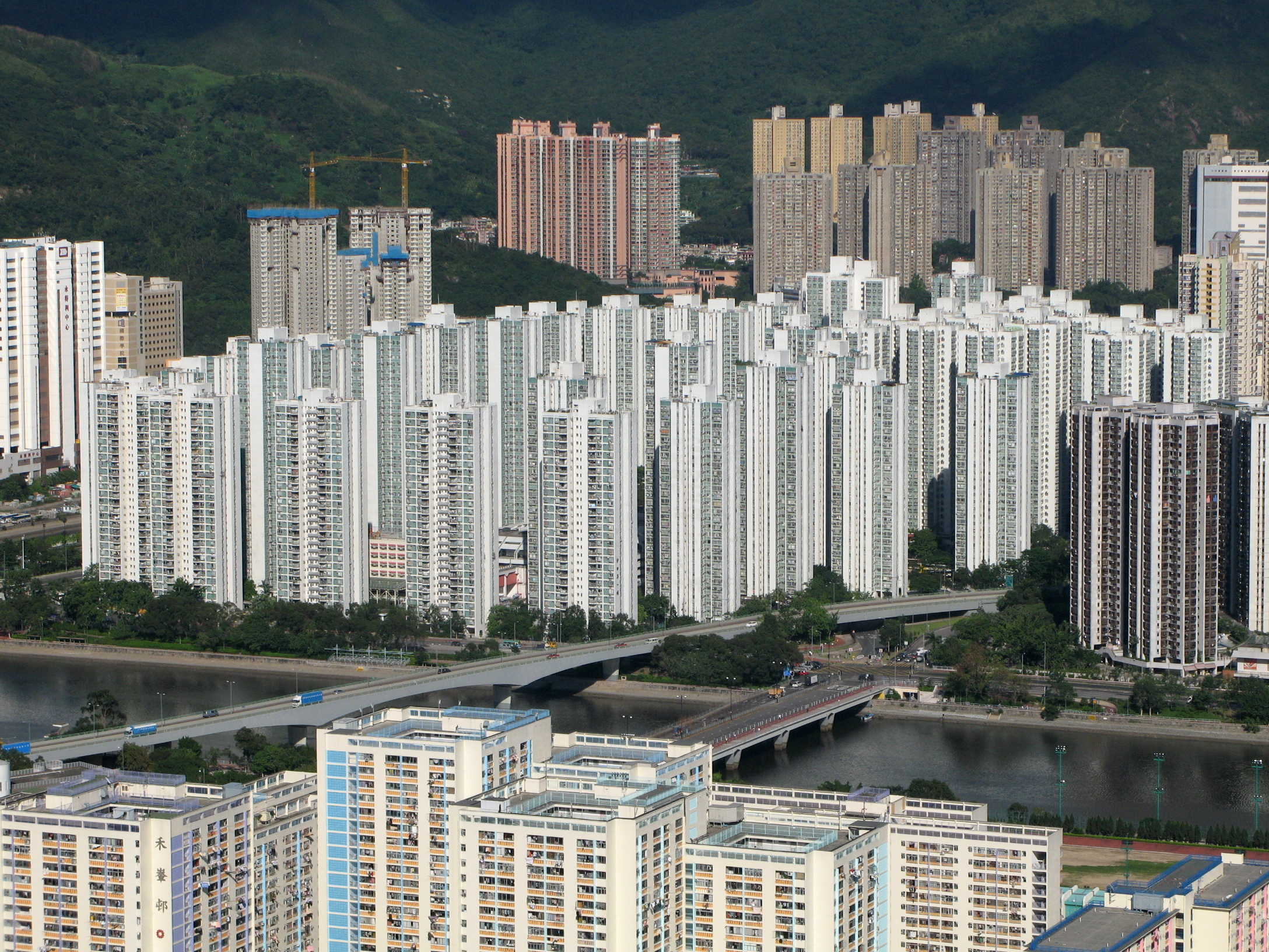 HK Cityone Shatin 沙田第一城